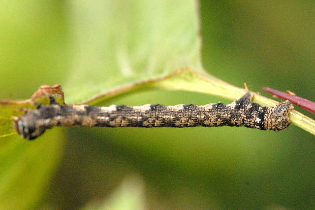 Epirranthis diversata from Commanster, Belgian High Ardennes .